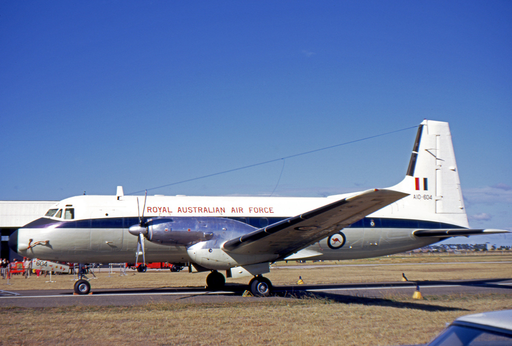 Avro 748 (Hawker Siddeley 748) of the Royal Australian Air Force at RAAF Laverton in 1971.